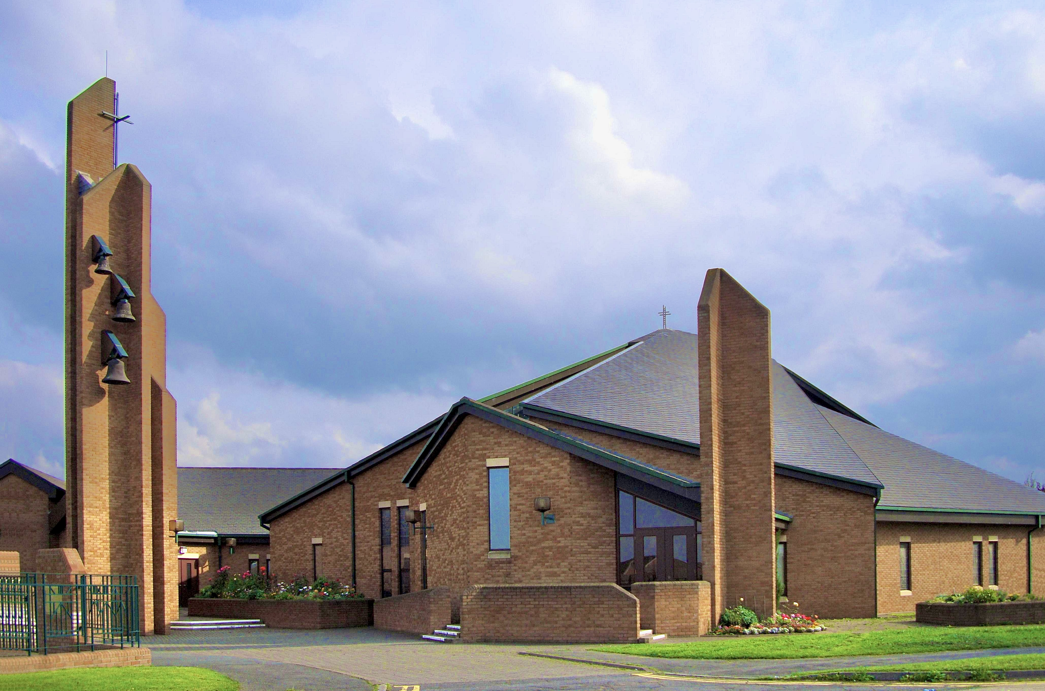 Photograph of the Roman Catholic Cathedral, Coulby Newham, Middlesbrough, England